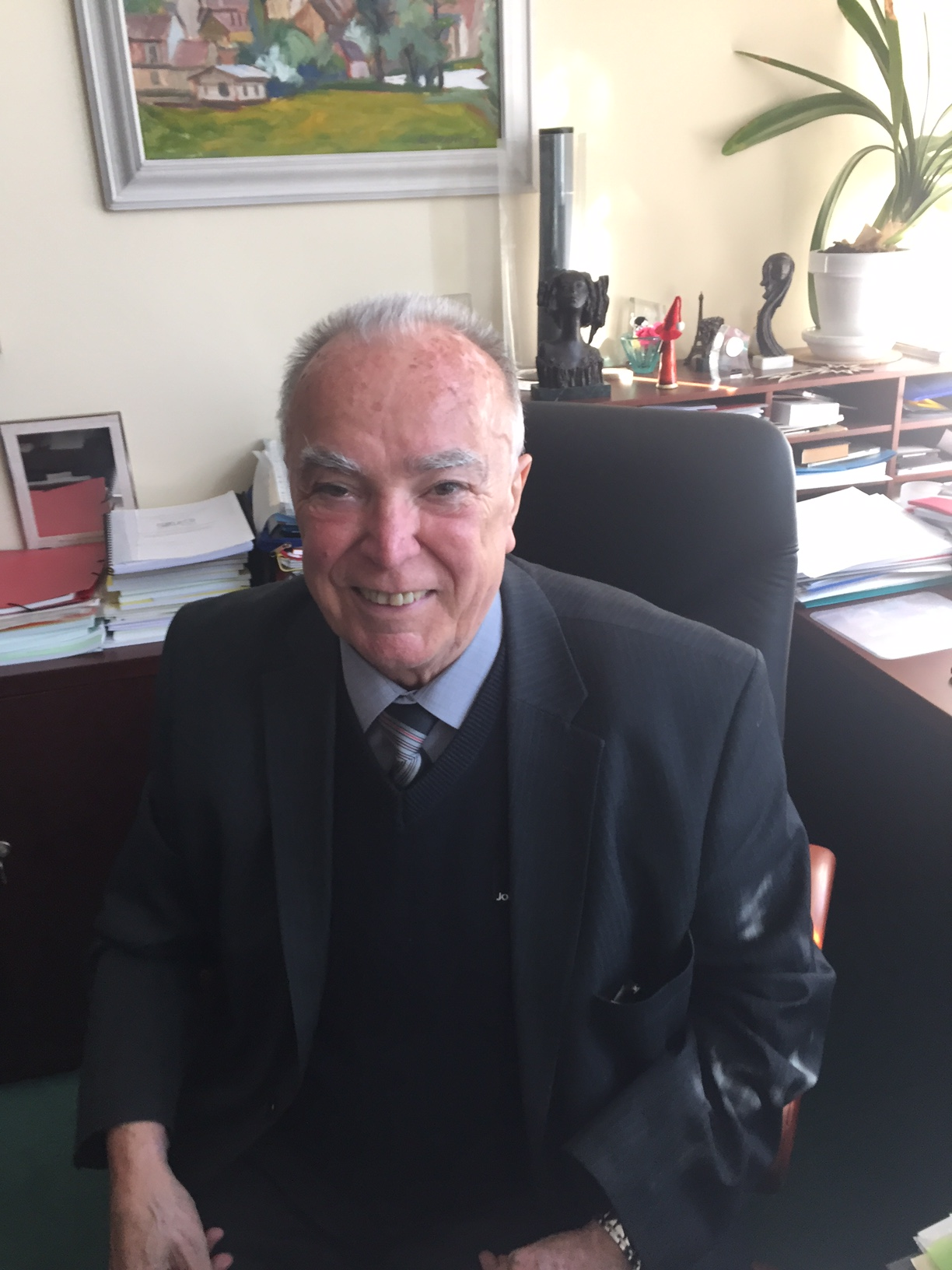 Jan Hron, Professor and Rector Emeritus Czech University of Life Science Prague